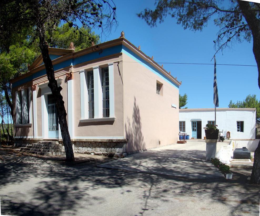 The distillery of Kythira, located in the village of Pitsinianika. The main building was built in the 19th century and used to be an elementary school till the 1920's. The building is PD by age.